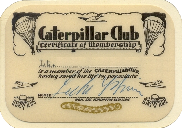 Scan of a membership certificate of the Caterpillar Club, the name of the member has been removed.